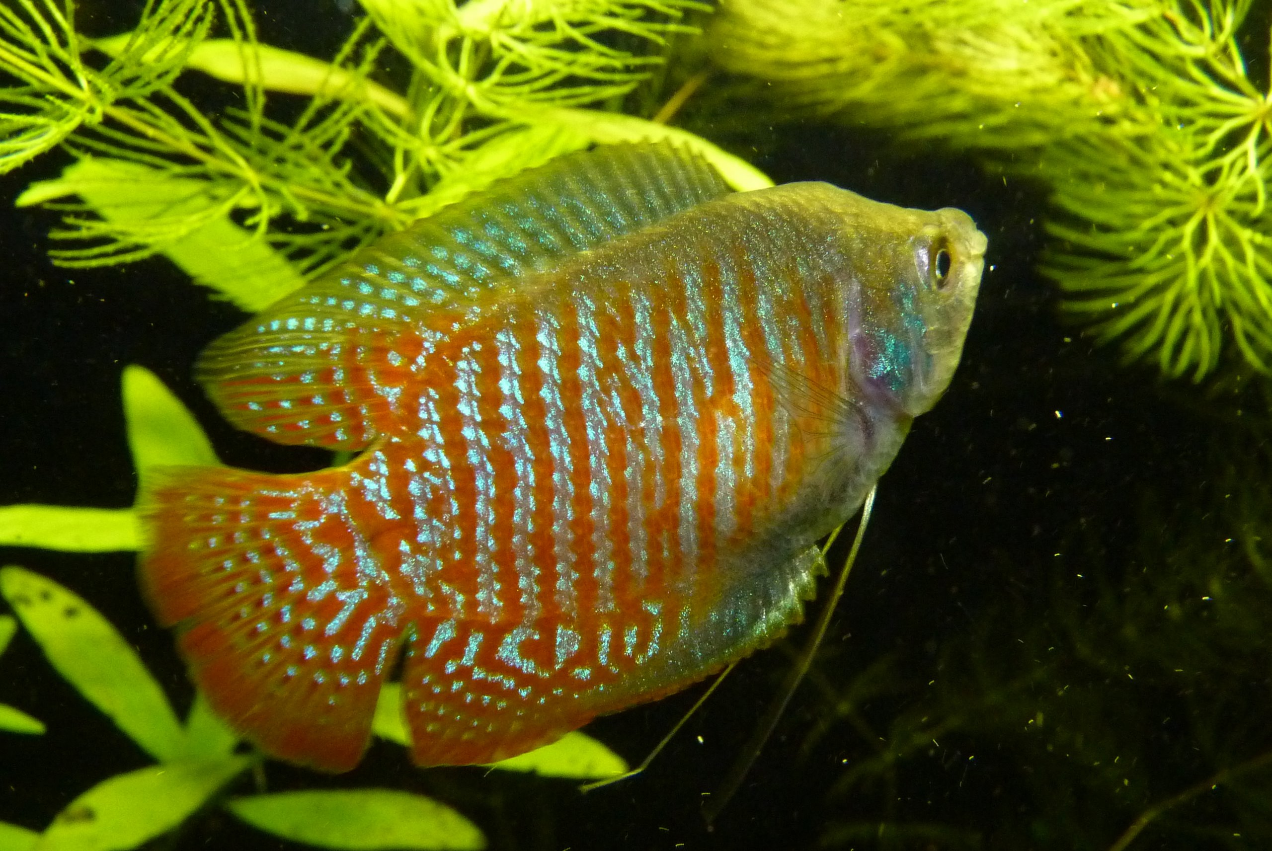 a male colisa lalia